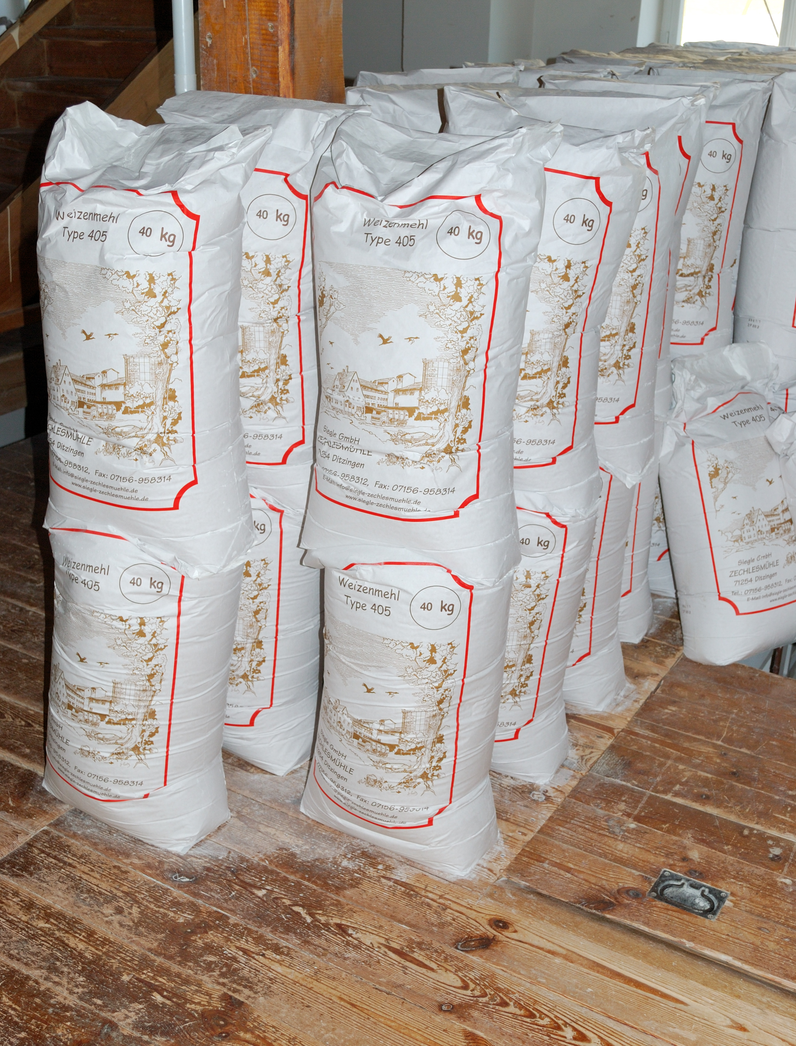 Wheat flour German type 405 in 40 kg sacks. Zechlesmühle in Ditzingen in Baden-Württemberg in Germany.